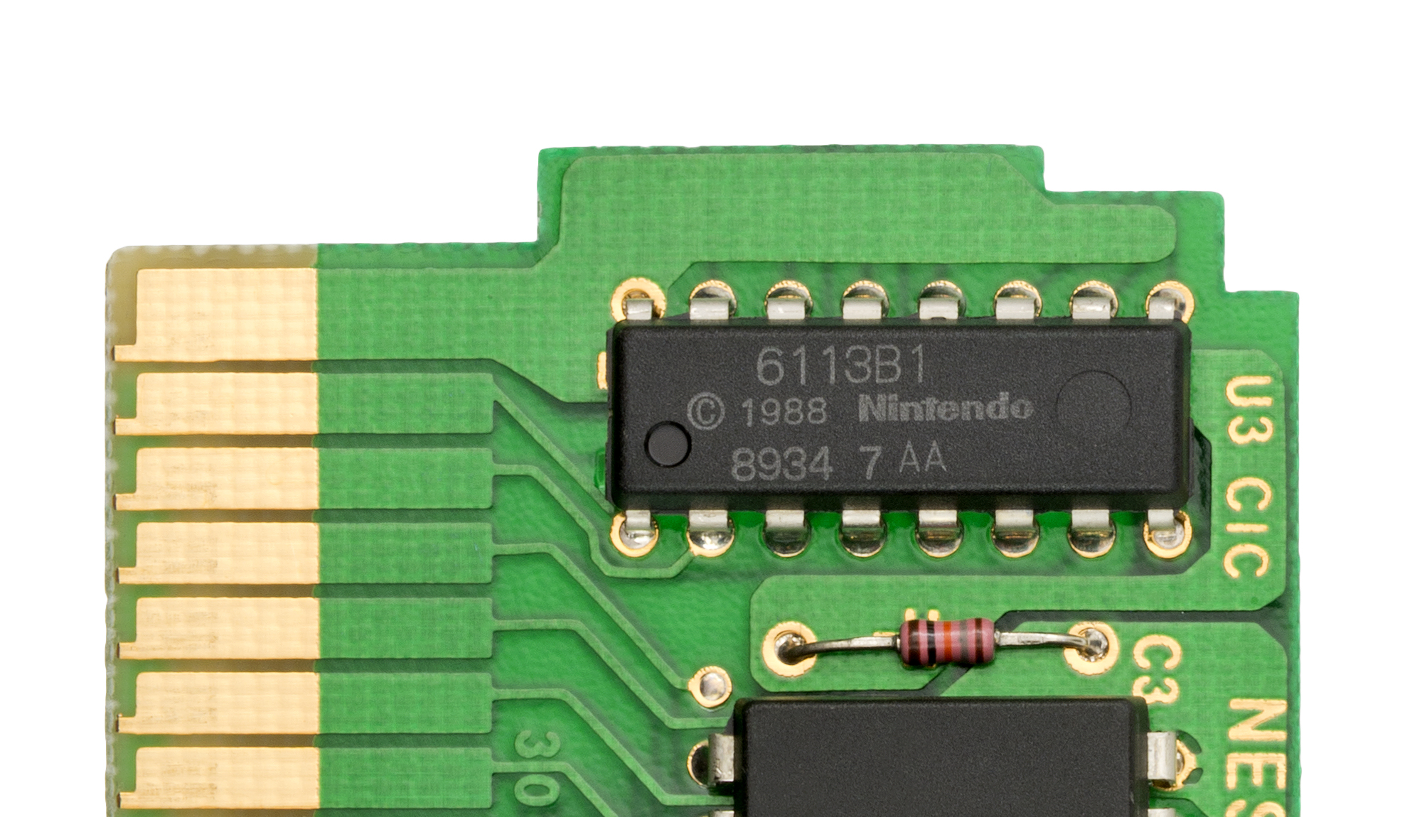 An example of the Checking Integrated Circuit (CIC) 10NES lockout chip. This chip was required on games in order to play on an NES, so that unauthorized games would be locked out. This was done so Nintendo could prevent a flood of unauthorized software, while also requiring game publishers to purchase their cartridges through Nintendo.